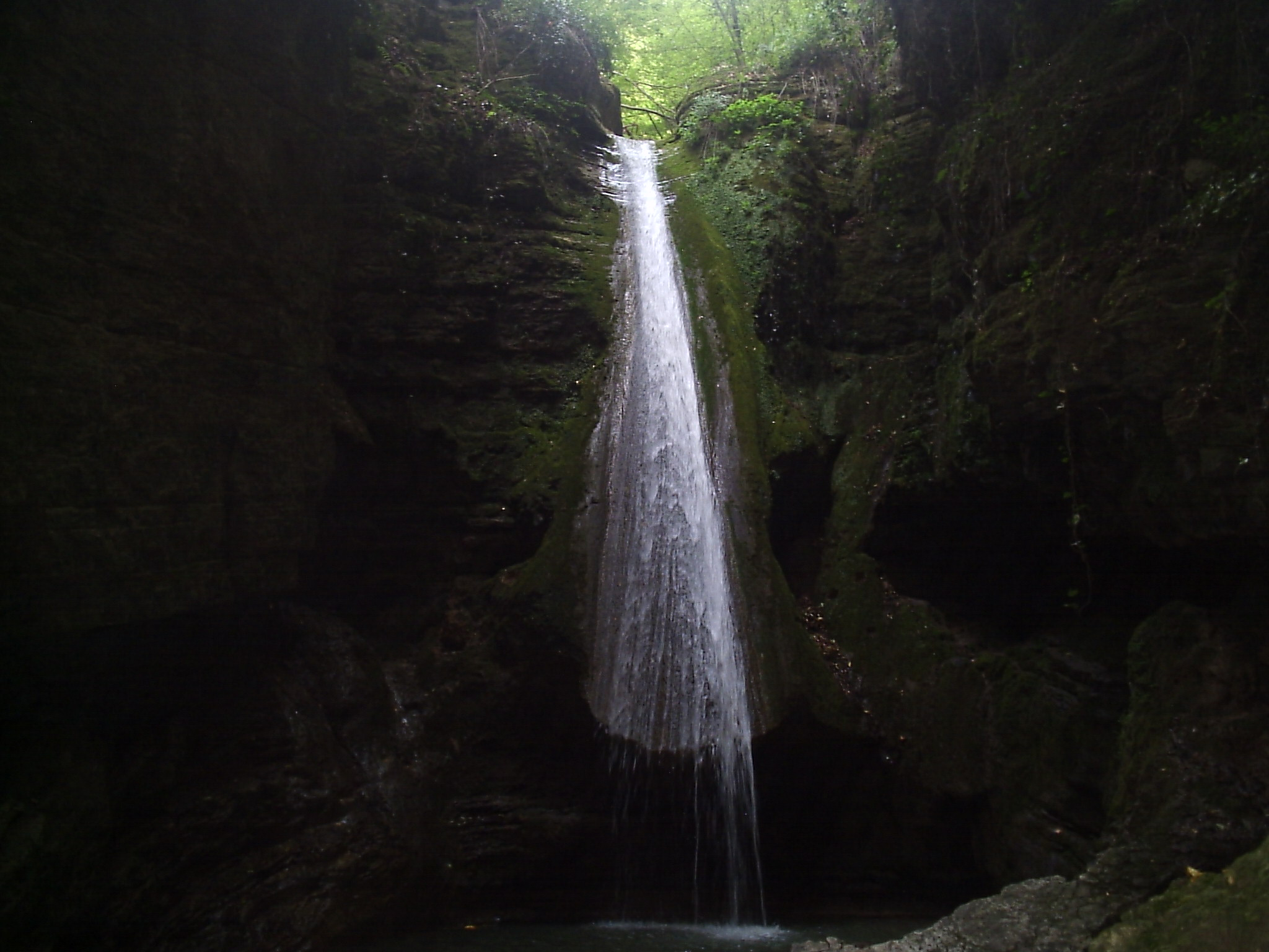 Sangeno Waterfall in Mazandaran province.